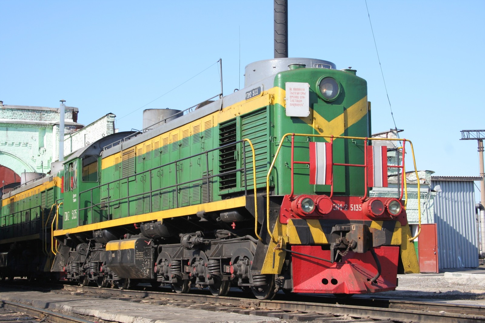 Diesel locomotive TEM2-5135 at Tomsk-II station